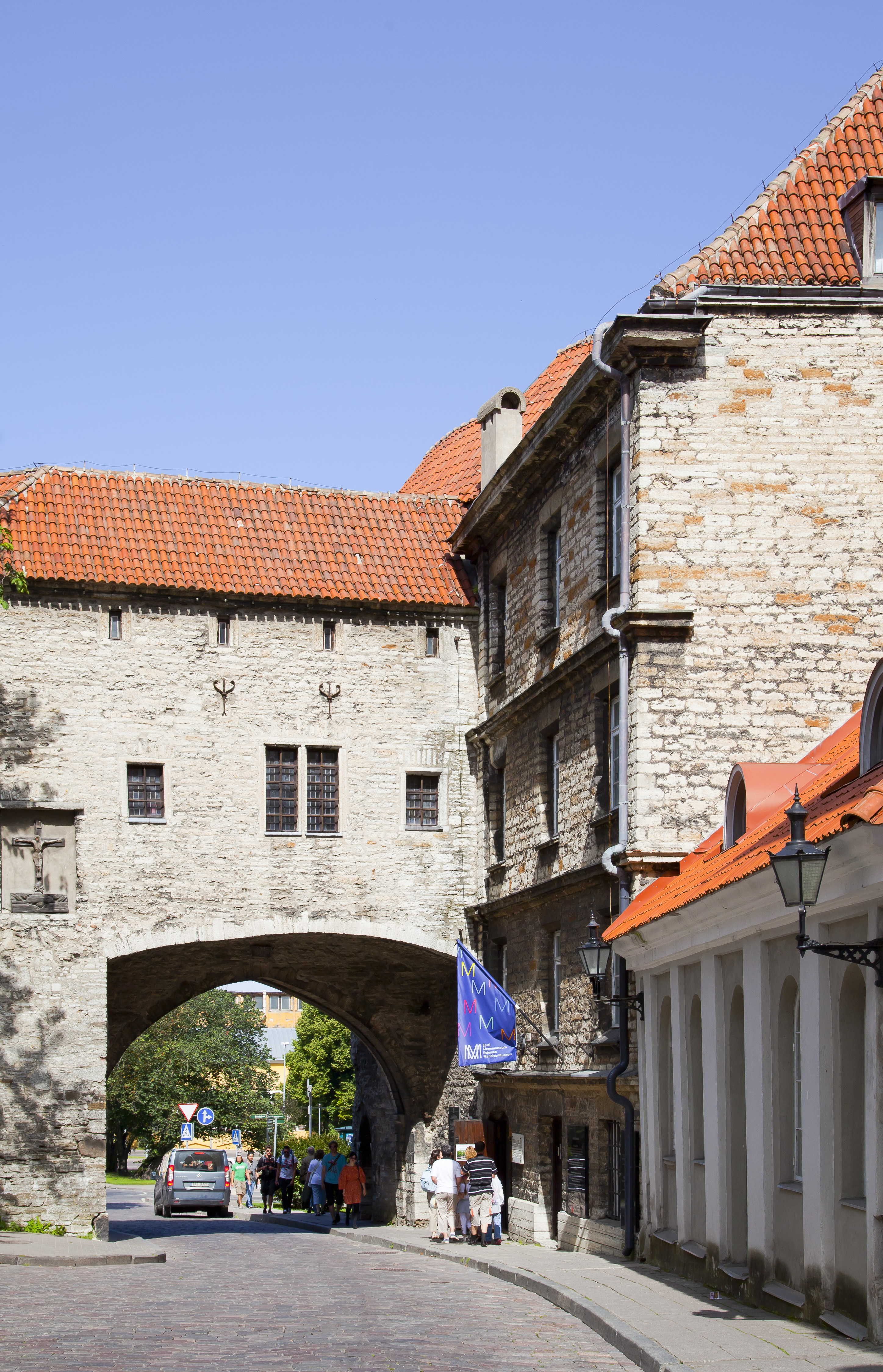 Great Coastal Gate, Tallinn, Estonia